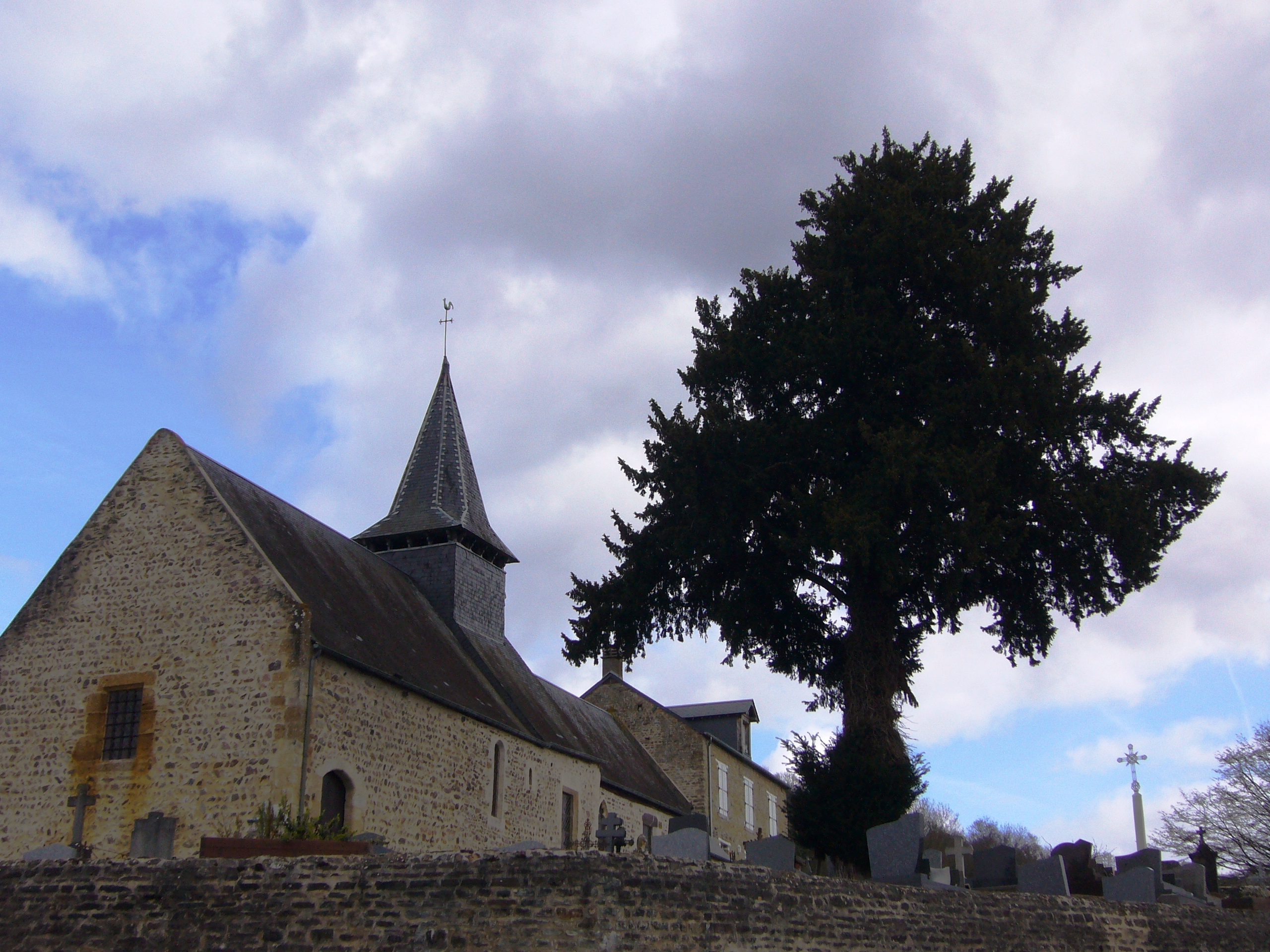 Saint-Laurent Church at Le Vey (Normandy) and Yew-Tree